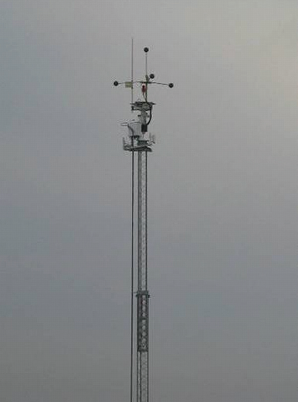 UTAMS acoustic tower subcomponent of Rocket Launch Spotter